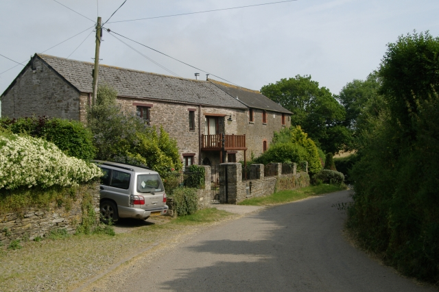 The Barn, Trehunist. The Barn, in the tiny hamlet of Trehunist, south east Cornwall.